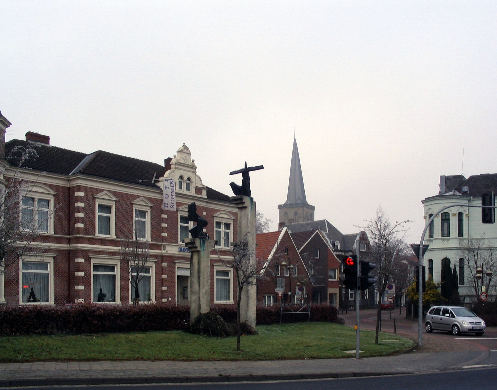 Castle Altona square today